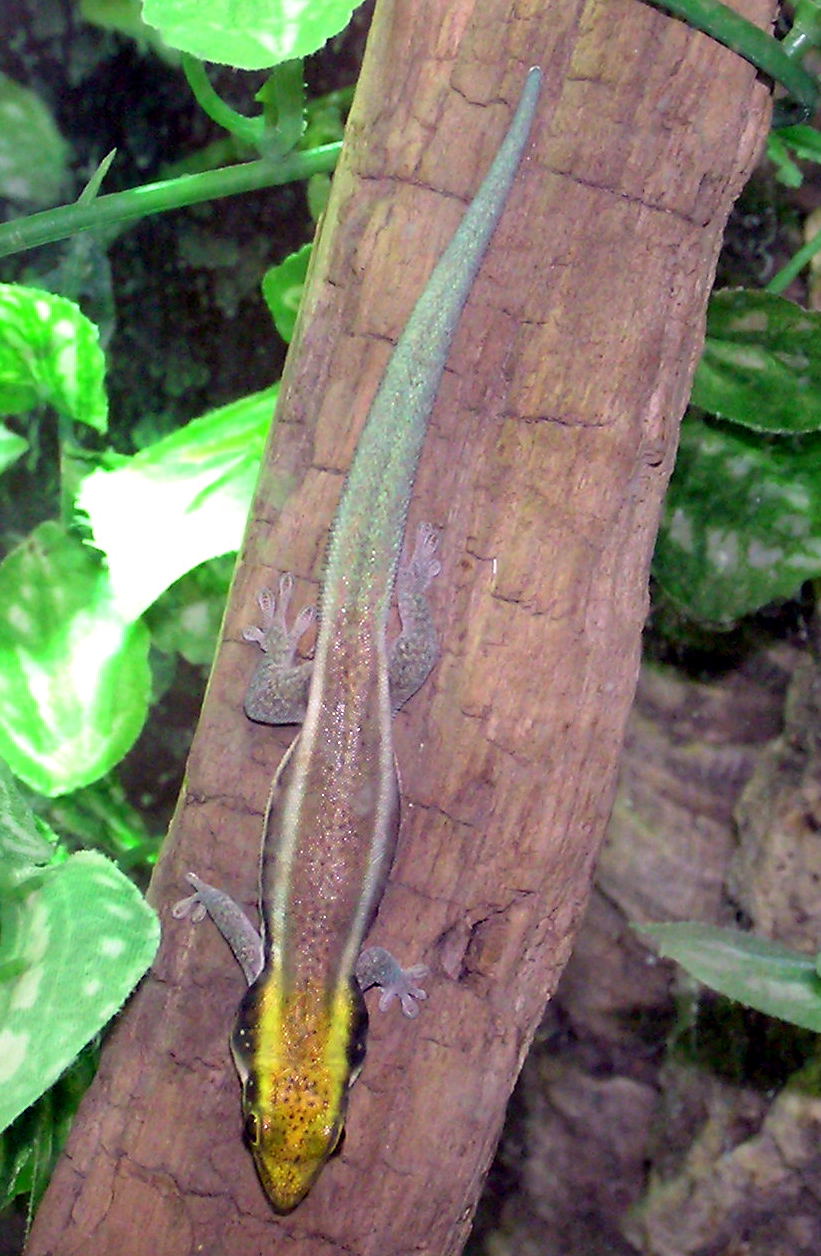 Yellow-headed day gecko Phelsuma klemmeri at Bristol Zoo, Bristol, England.